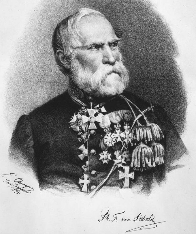 Signed portrait of Philipp Franz von Siebold, German-Dutch naturalist.